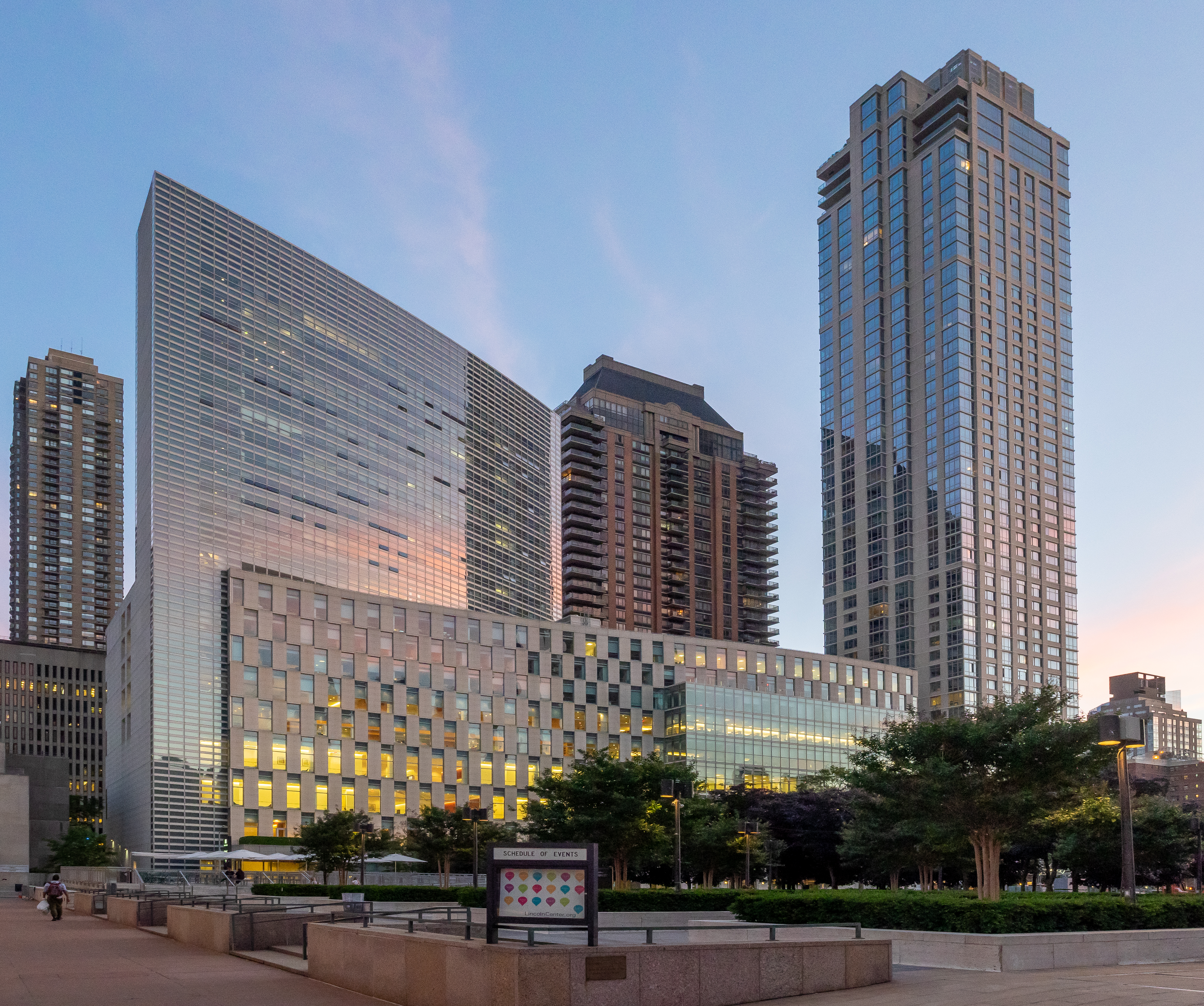 As seen from Lincoln Center